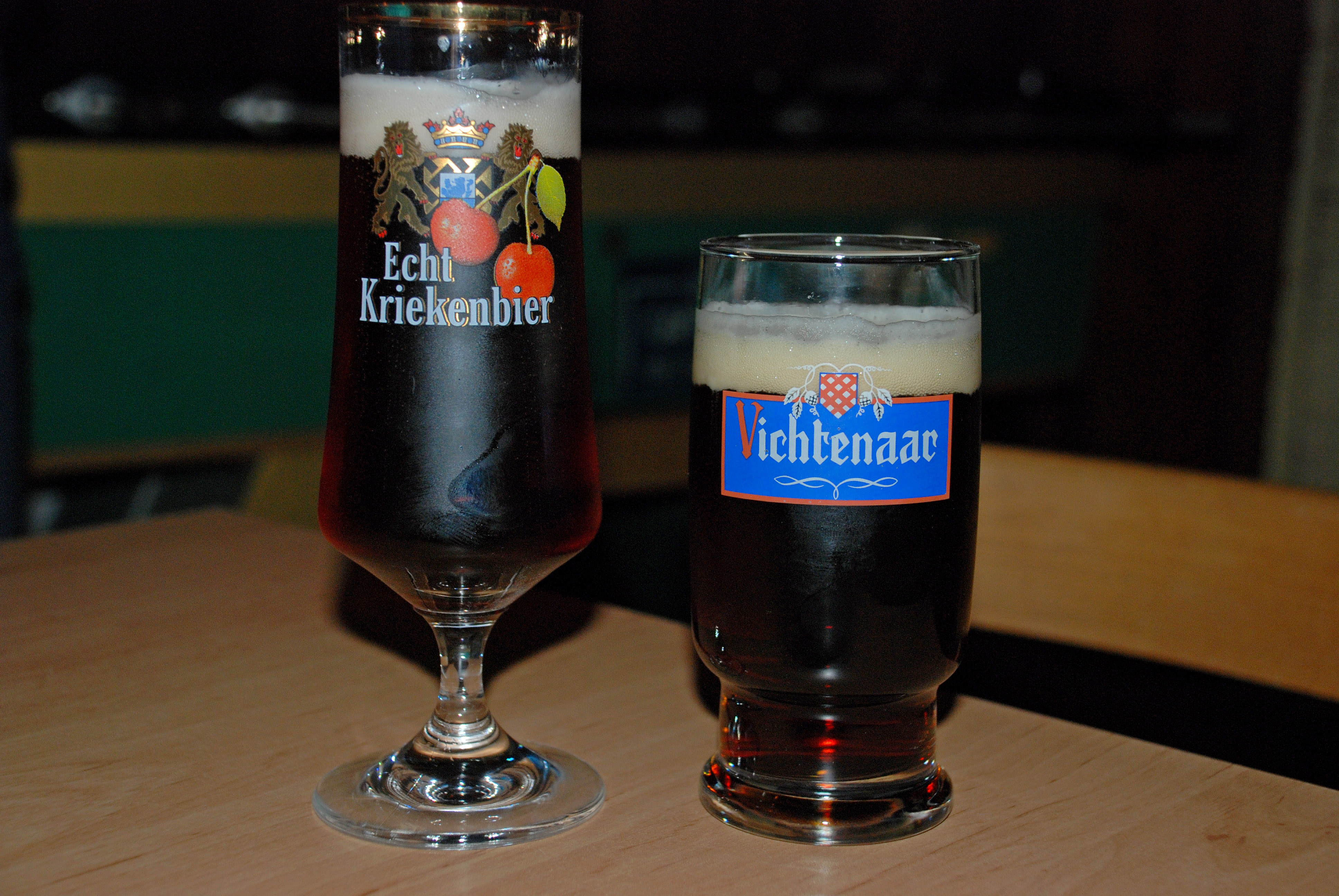 Beers brewery Verhaeghe, Belgium